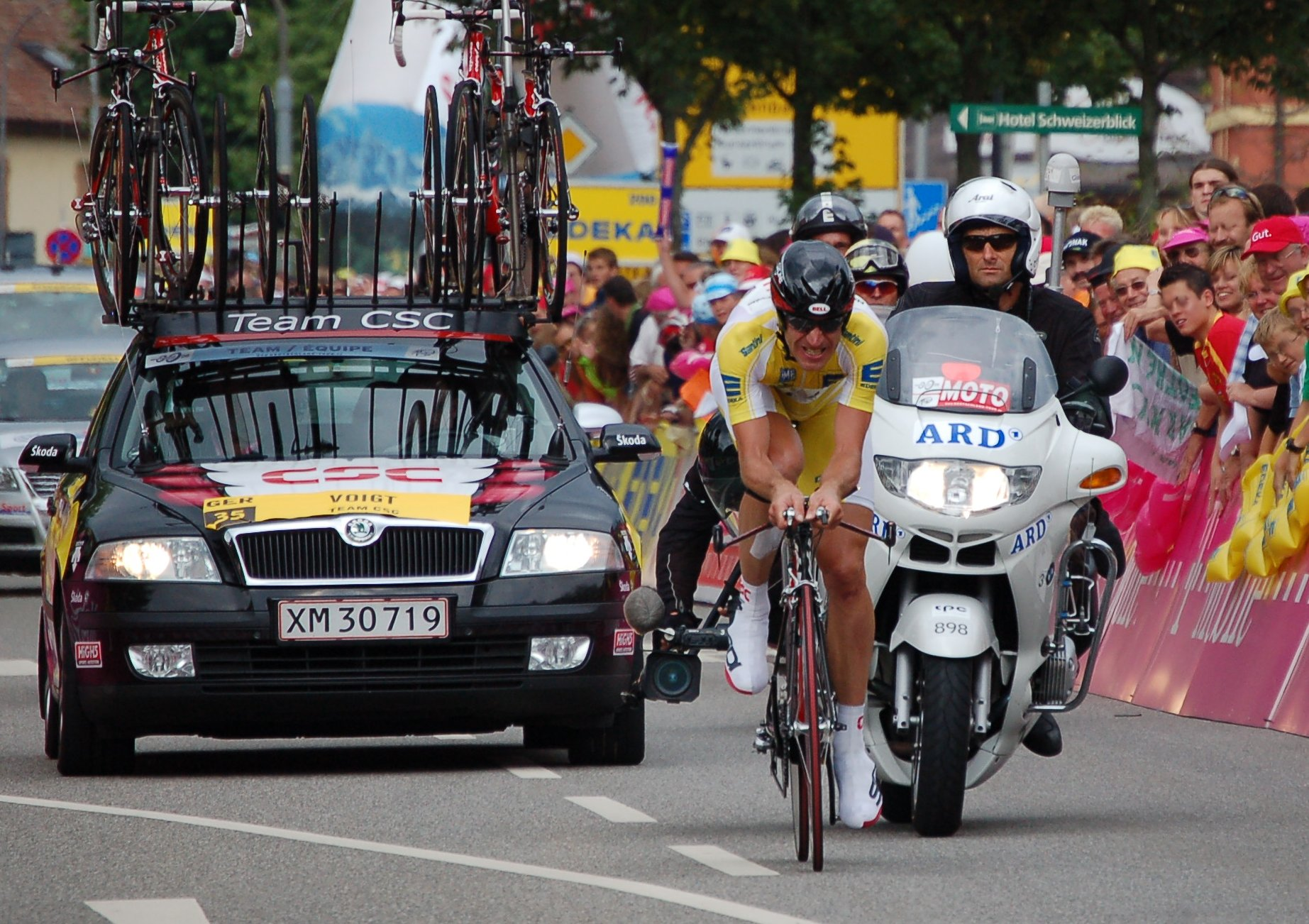 Jens Voigt at Tour of Germany 2006, stage in Bad Säckingen.